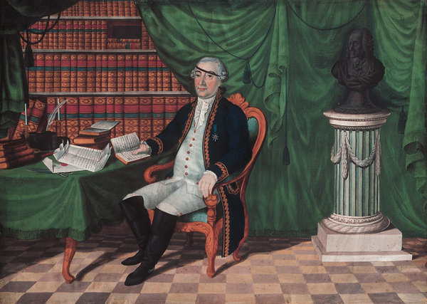 David Louis de Constant Rebecque (1722-1785), with a bust of Voltaire (1694-1778) drawing, gouache inscribed r.: IMMOR[.] / [.]LIS 1775 - 1785